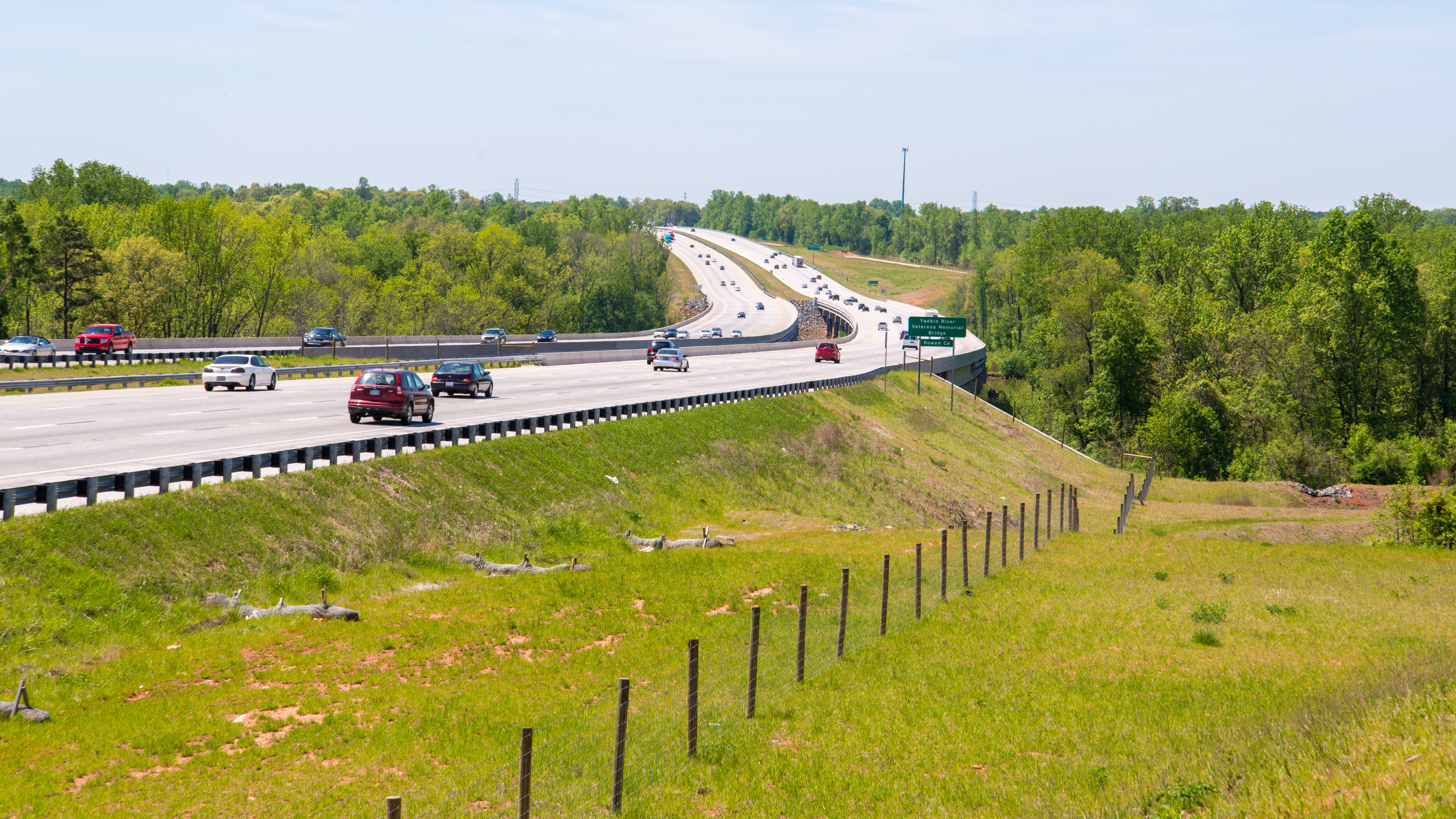 The Yadkin River Veterans Memorial Bridge is two bridges, each carrying four lanes of traffic. It replaced the I-85 Yadkin River bridge, which existed from 1957-2012.